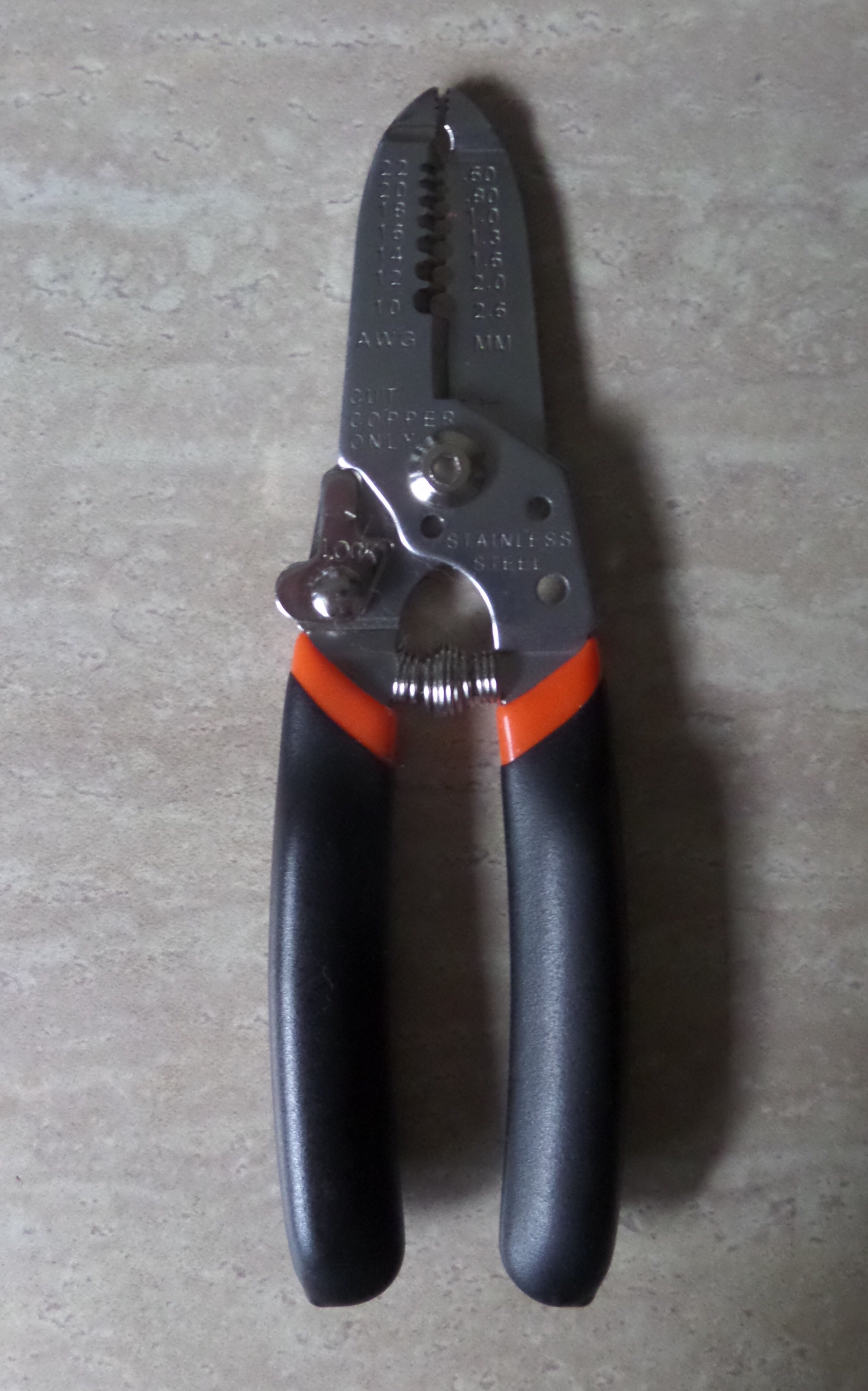 Wire strippers with black handle